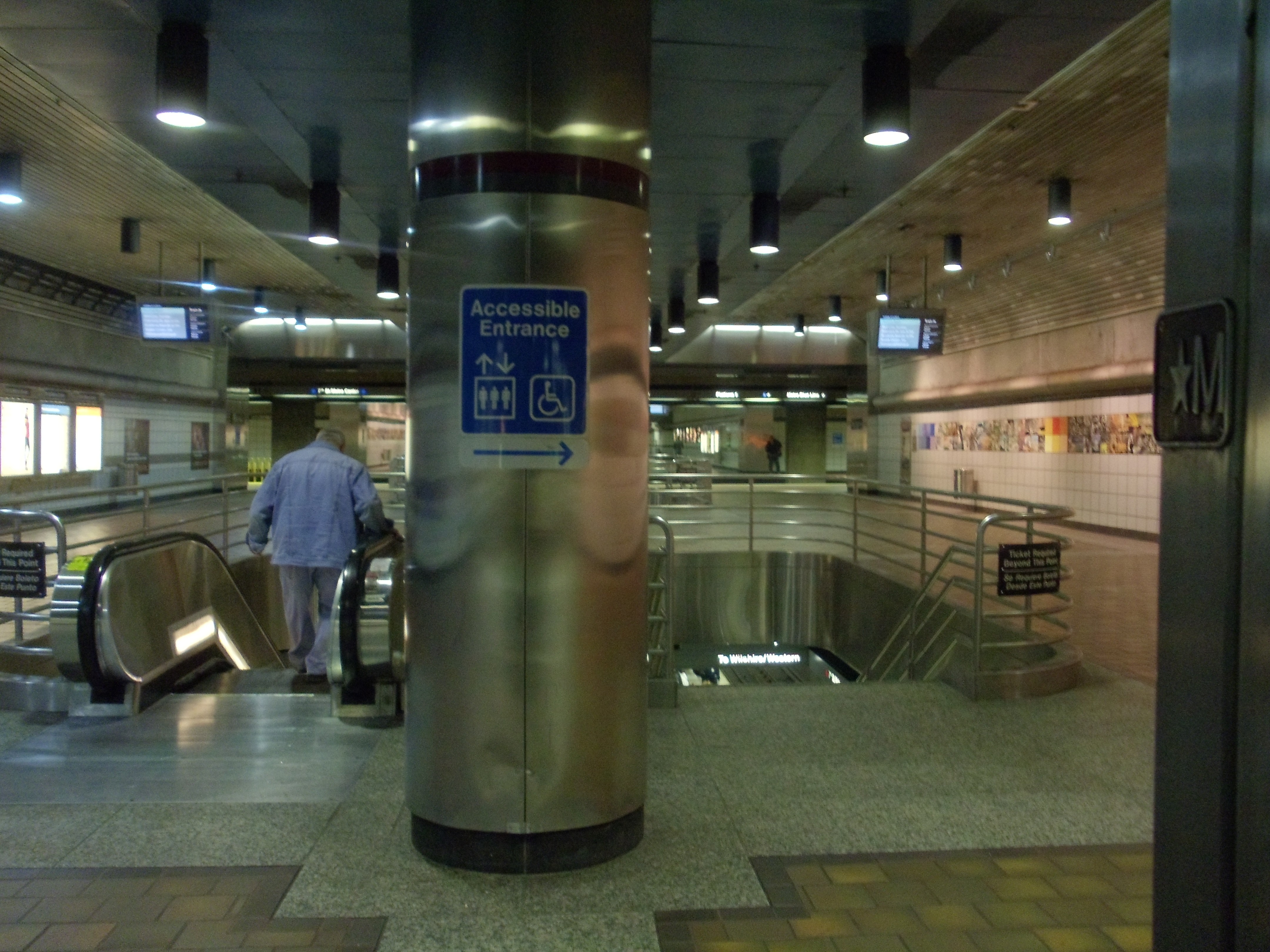 The Metro Blue Line level at the station.